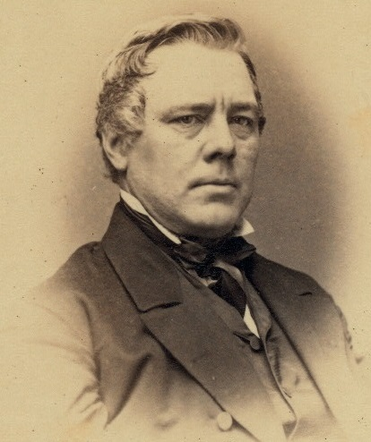 Moses F. Odell, Congressman from New York